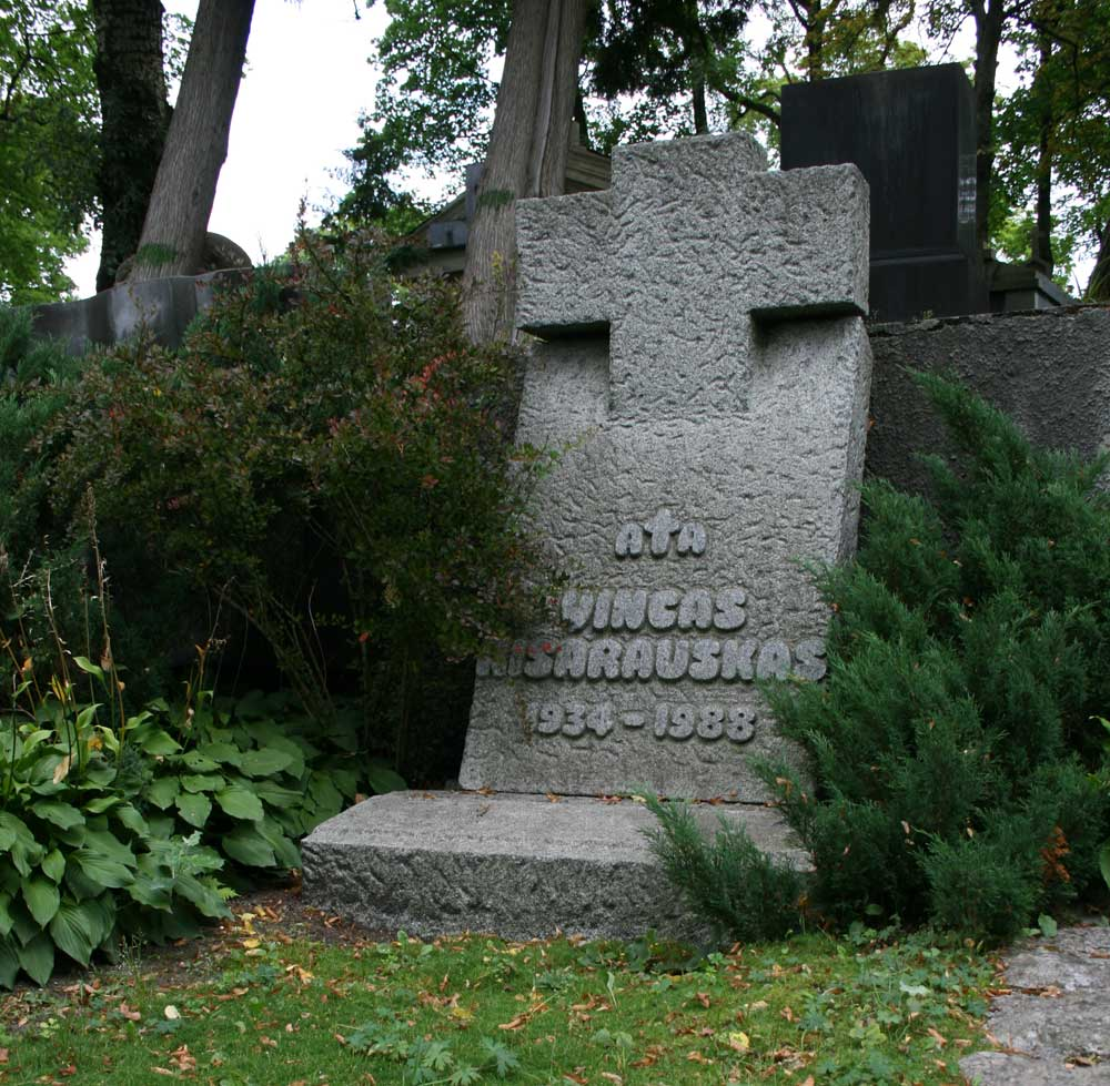 Lithuanian painter Vincas Kisarauskas at Rasos Cemetery in Vilnius (Lithuania)